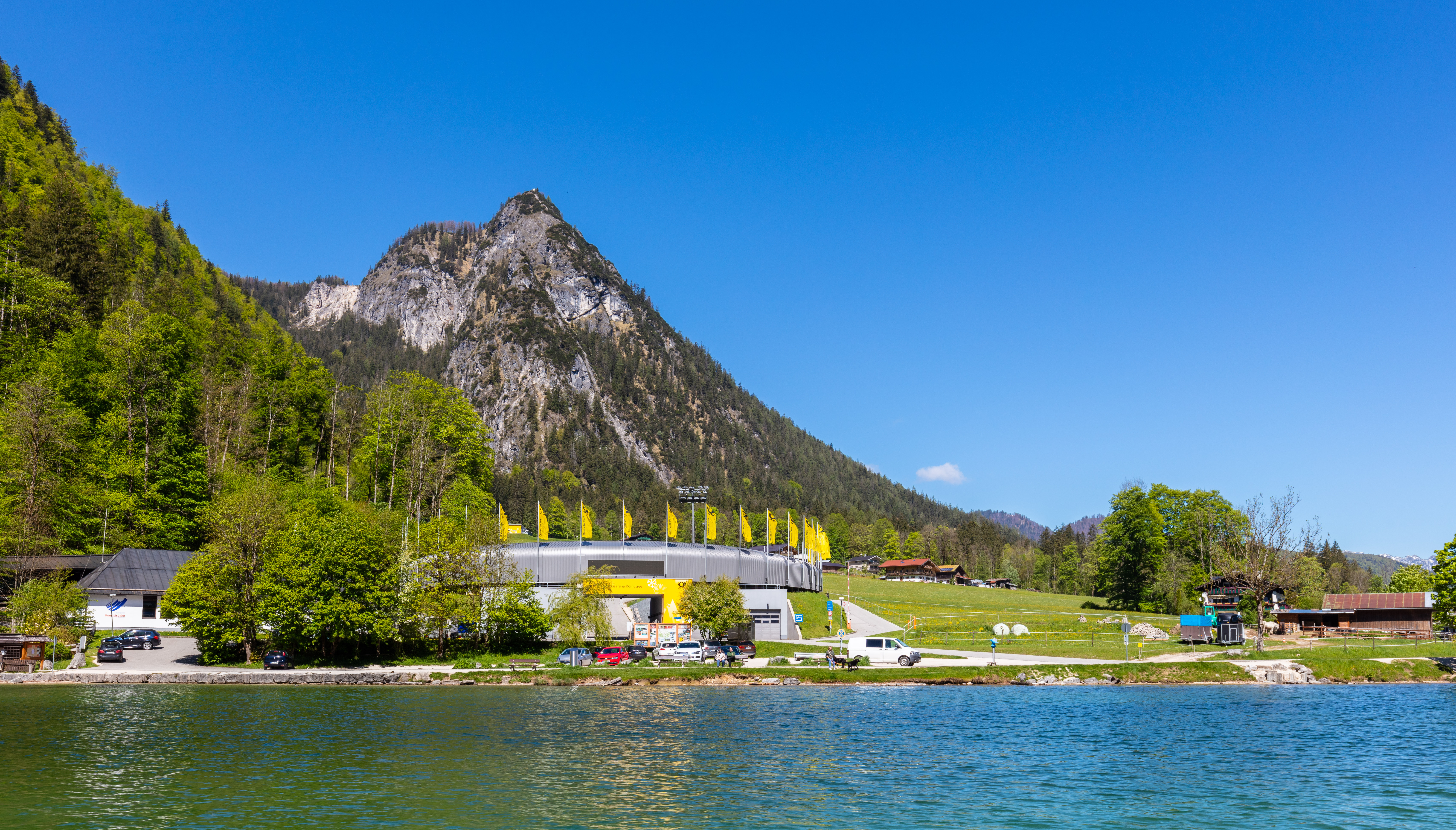 Deutsche Post Eisarena Königssee, Schönau am Königssee, Germany